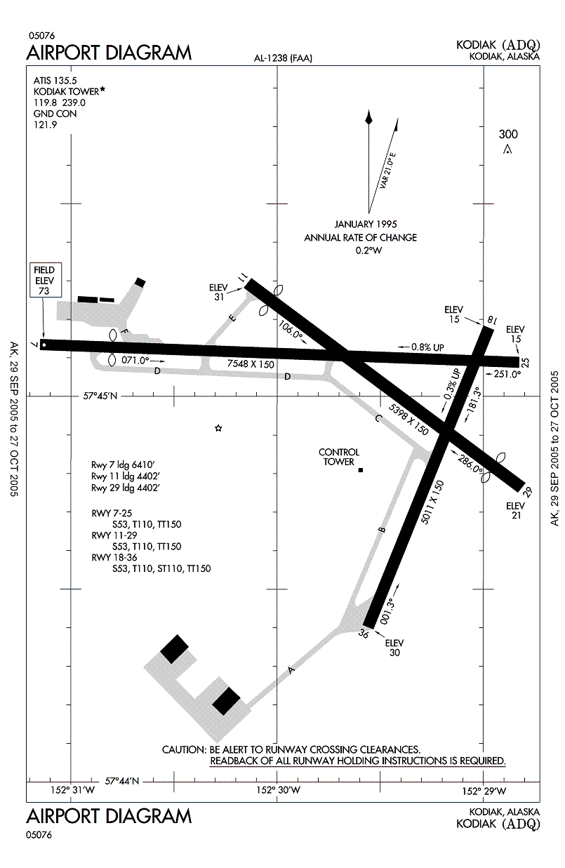 FAA airport diagram for Kodiak Airport (ADQ) in Kodiak, Alaska, United States.